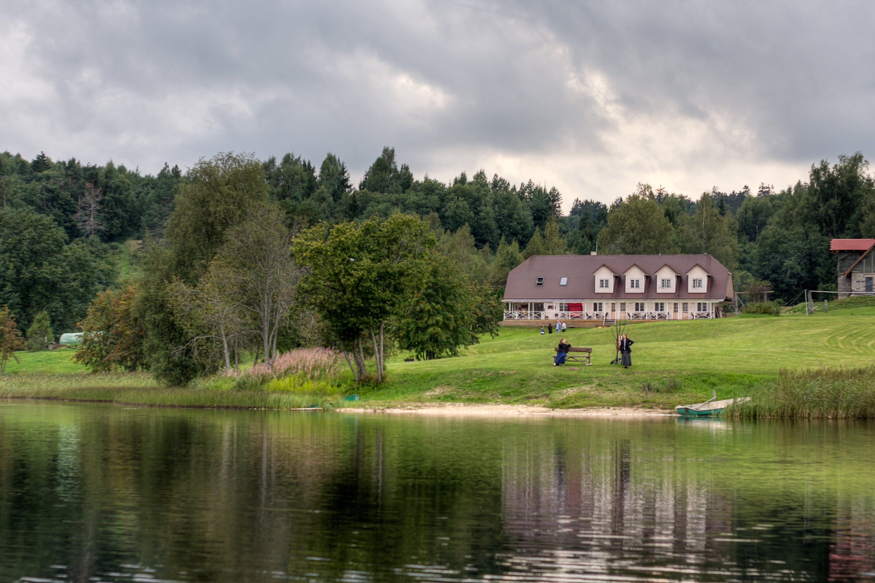 Finno-Ugric wikiseminar 2014 in Vaskna Tourist Farm